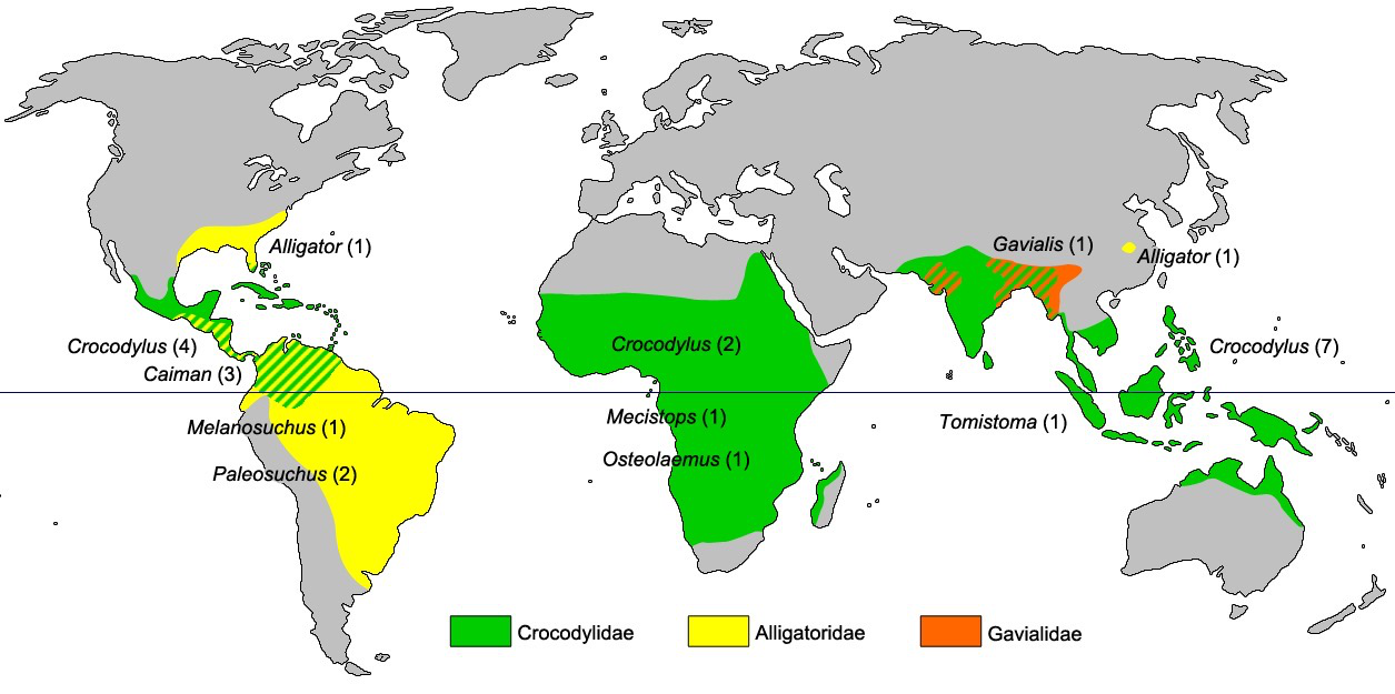 Biogeography of the Crocodylia. Number in brackets refer to number of species. After Alderton (1991),[1] modified according to range data from IUCN Red List. Note that Tomistoma schlegelii, the “false gharial”, is traditionally included in the Crocodylidae whereas new molecular data suggest an assignment to the Gavialidae. Hence, its spatial range is indicated in red as is that of Gavialis gangeticus.